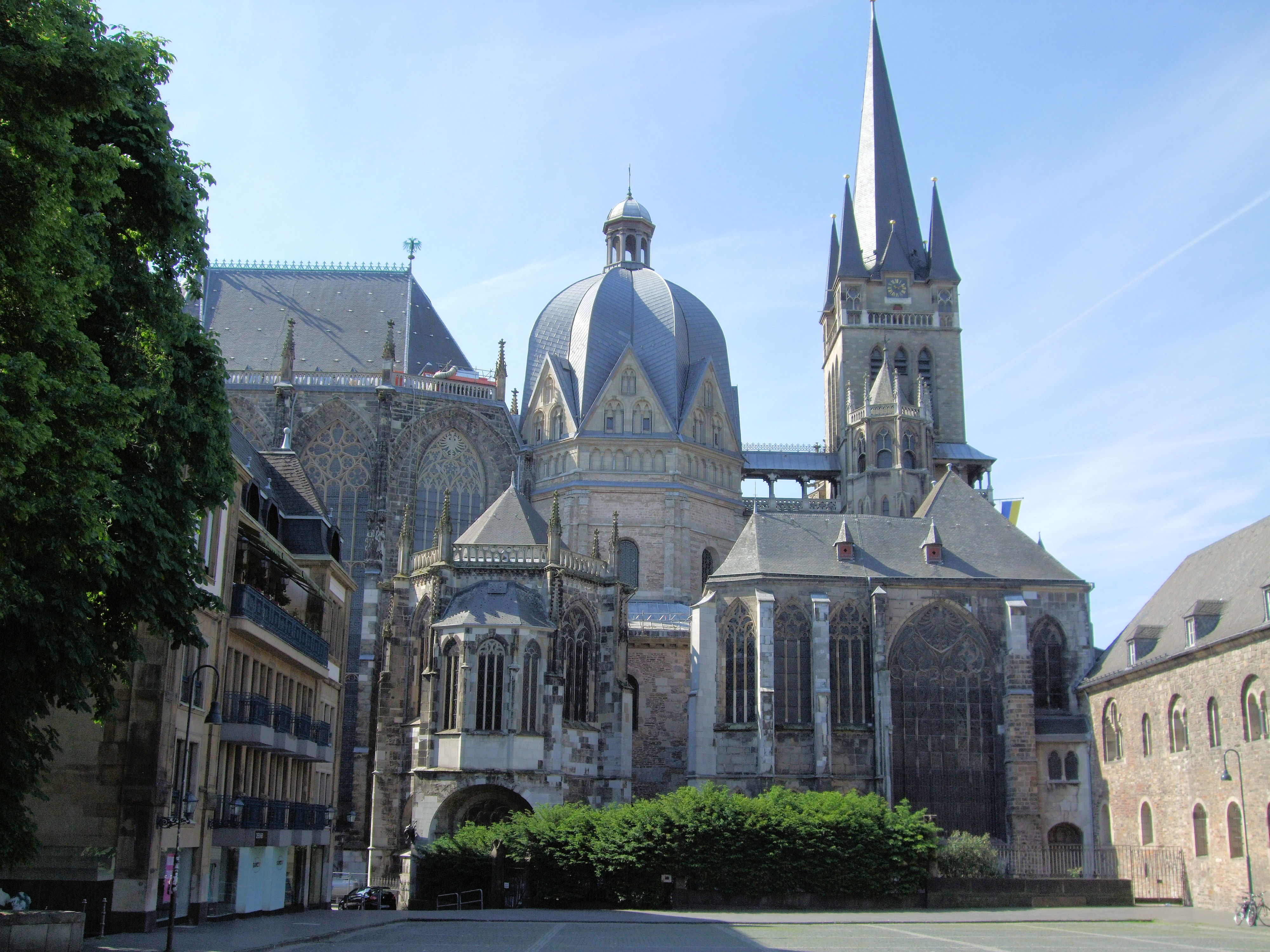 The cathedral in Aachen, Imperial Cathedral, viewed from north at evening. The oldest part of the church (built around the year 800 by Charlemagne) has an octagonal shape and can be seen in the middle. The gothic part on the left was built around 1350. It was a site of imperial coronations and pilgrimage for many centuries.